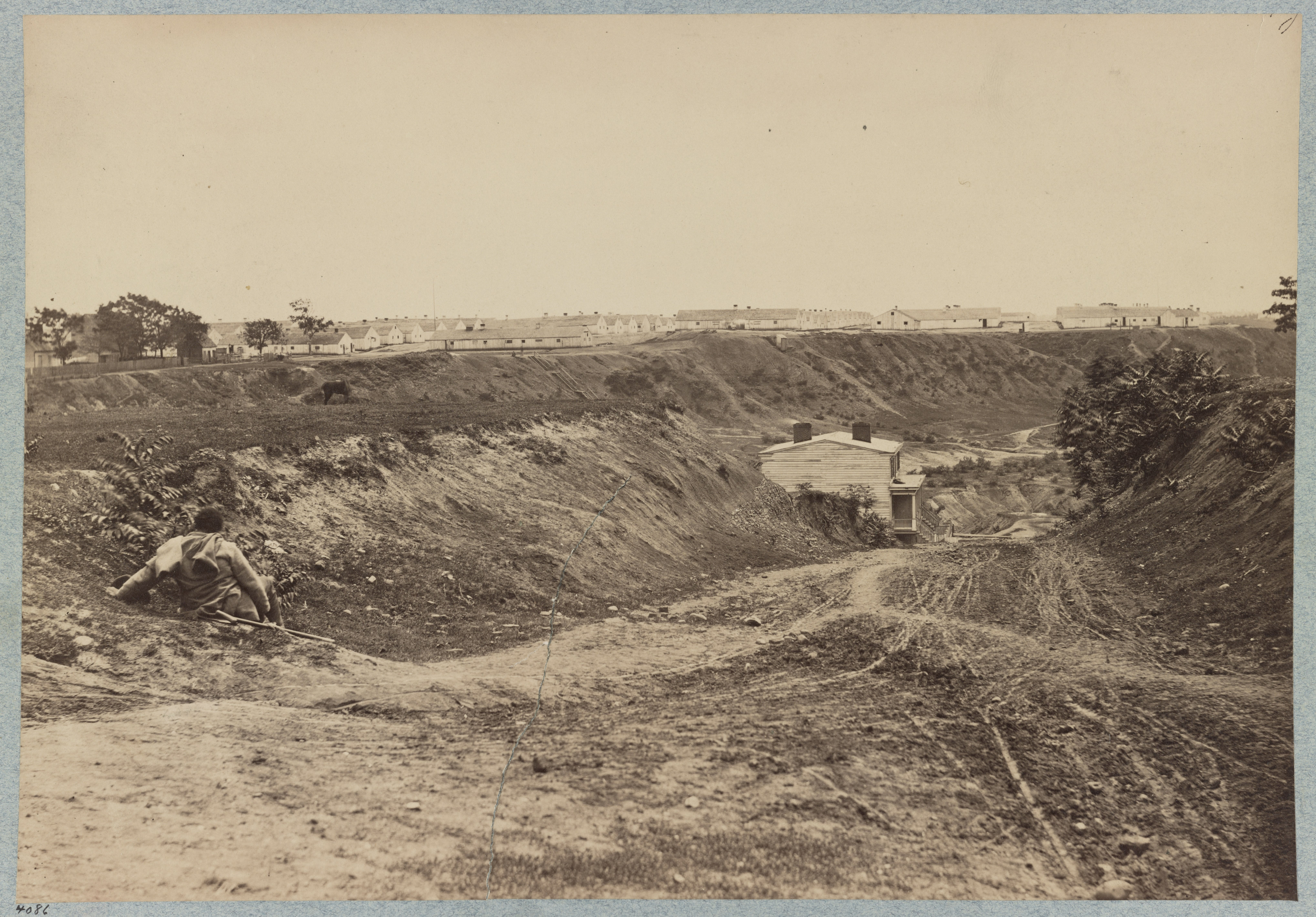 Title: Chimborazo Hospital, (Confederate) Richmond, Va., April, 1865 Physical description: 1 photographic print on card mount : albumen. Notes: Gift; Col. Godwin Ordway; 1948.; No. 4086.; Title from item.